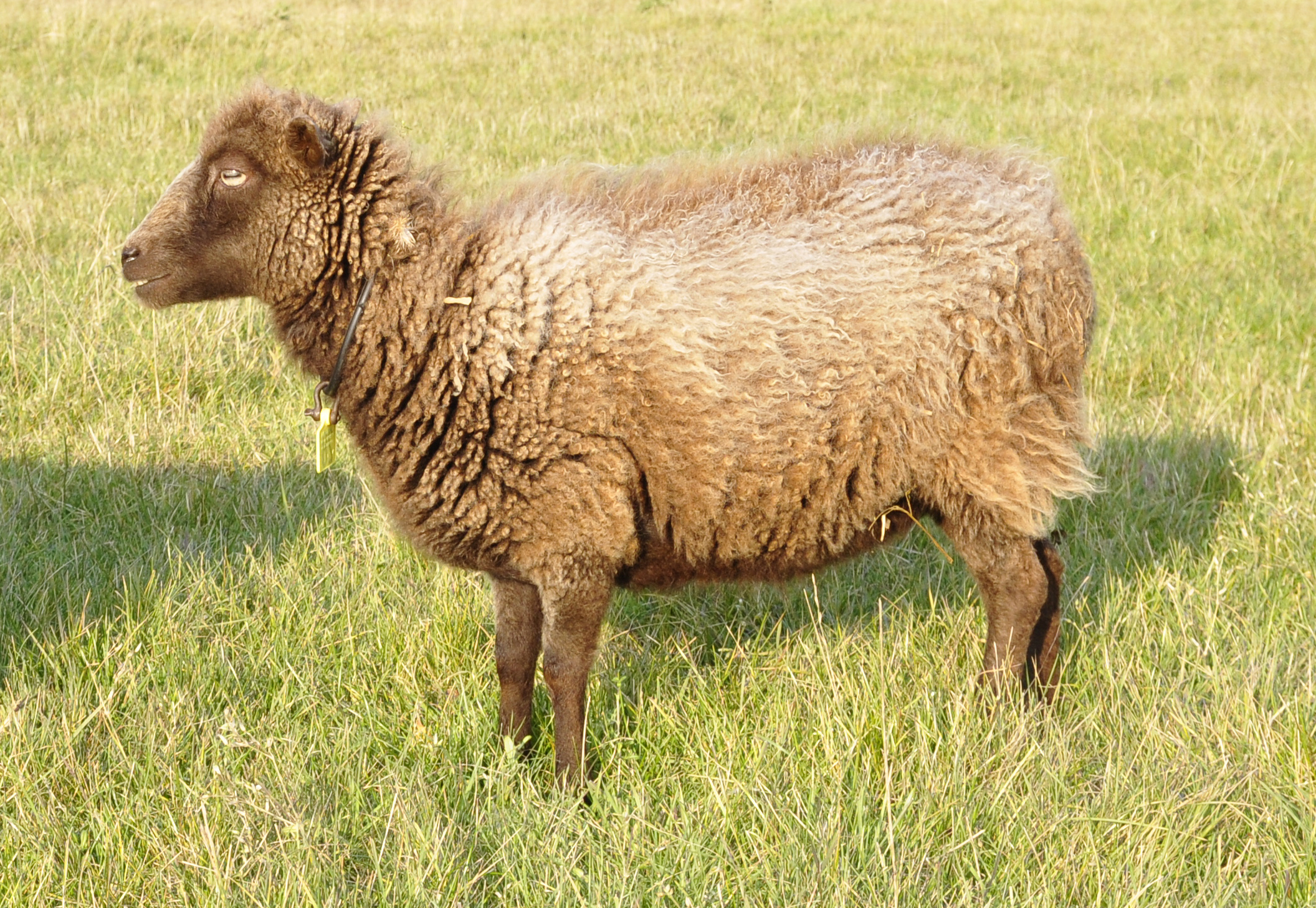 Ouessant sheep brown